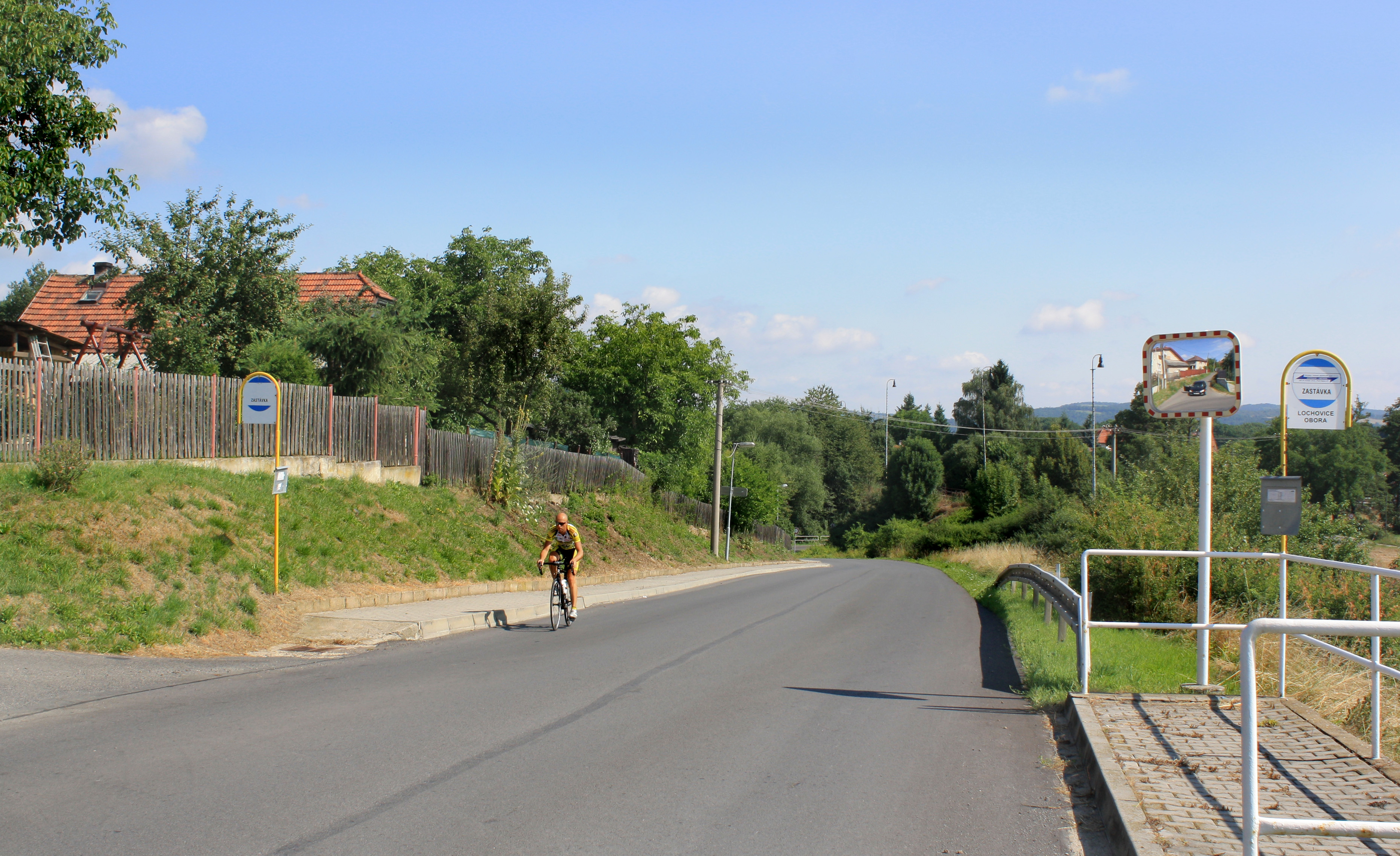 Bus stop in Obora, part of Lochovice municipality, Czech Republic